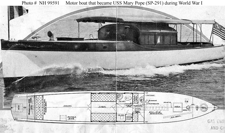 The motorboat -- probably when new and named Manitee -- which later became the United States Navy patrol vessel USS Mary Pope (SP-291)